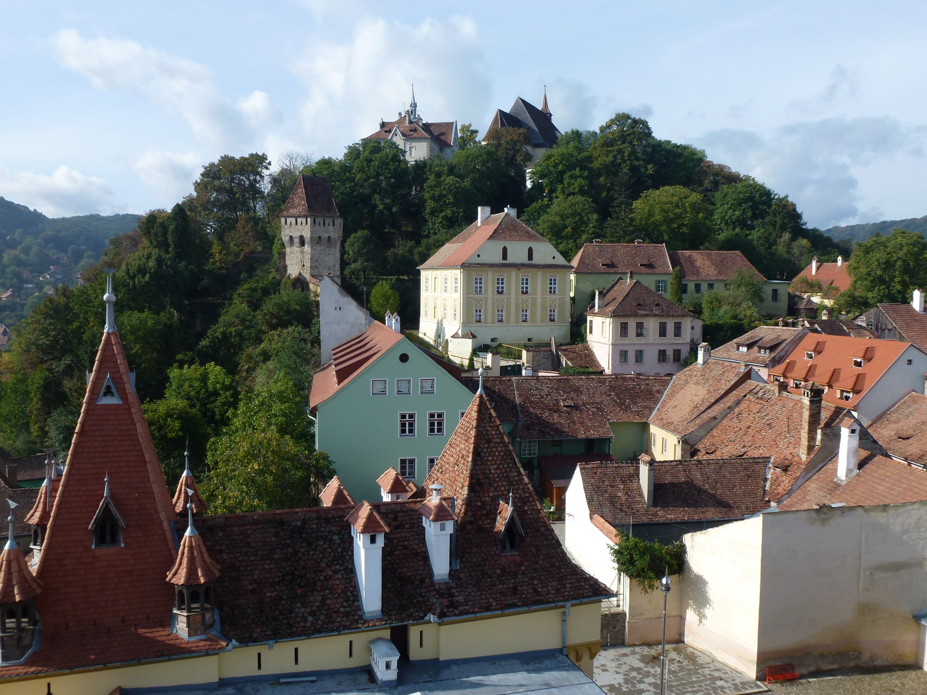 Schulberg, Sighisoara (Schäßburg), Romania. View from Clock Tower.